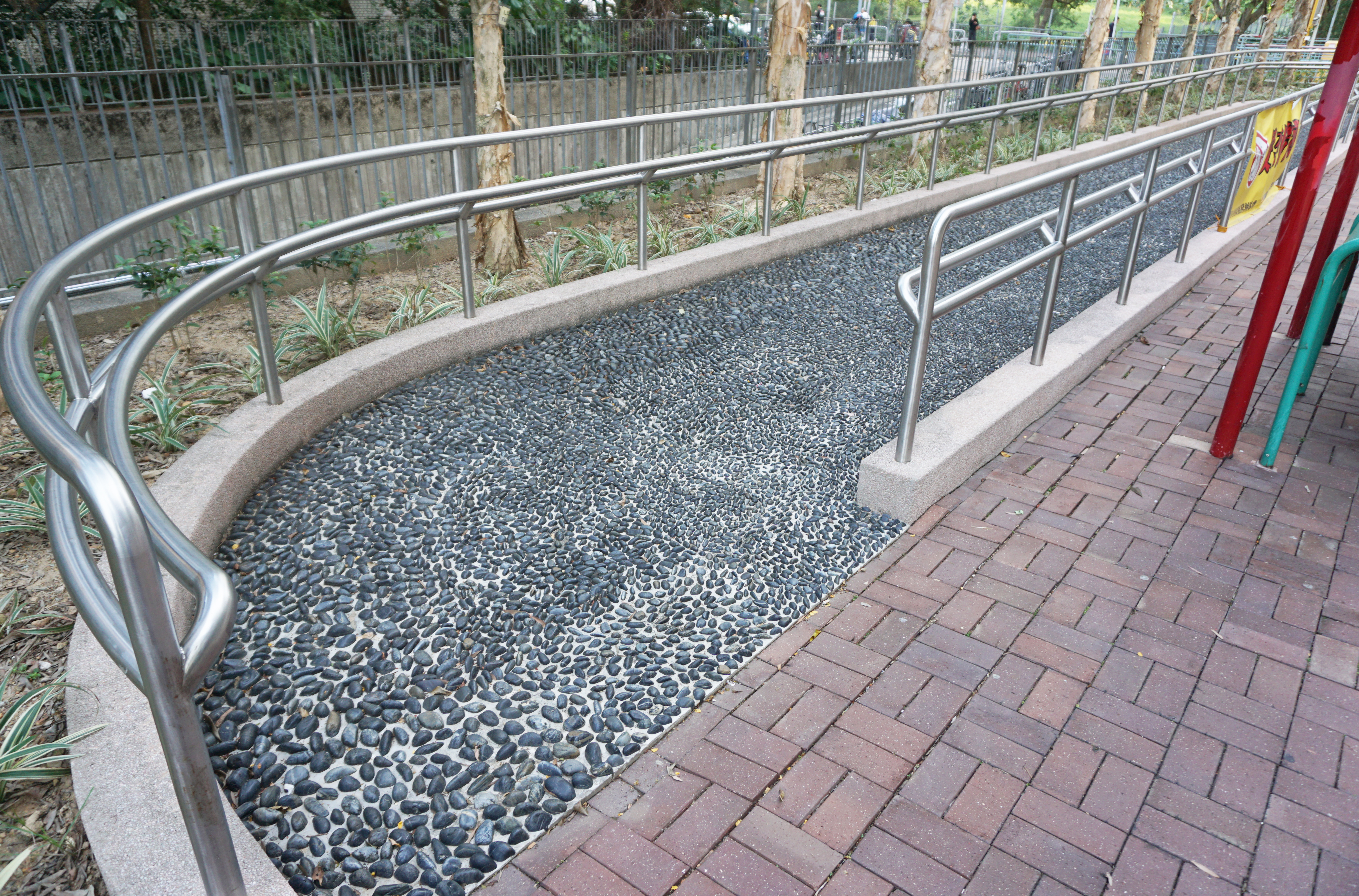 Lee On Estate in Wu Kai Sha, Hong Kong.